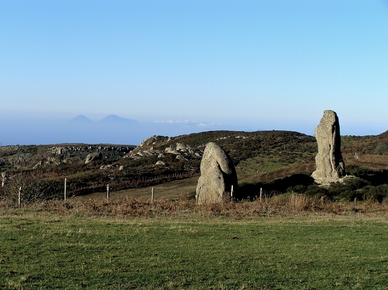 Natural rock formations not megaliths.